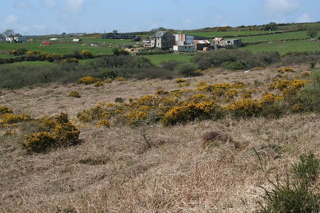 Calvadnack and Farmland Calvadnack is an area of open access heathland. There is a footpath marked on the OS map crossing it from north to south, however the footpath could not be found. The northern half of Calvadnack is used for rough cattle grazing and is passable but the vegetation makes the southern half unpassable, even in the springtime before the bracken has regrown.